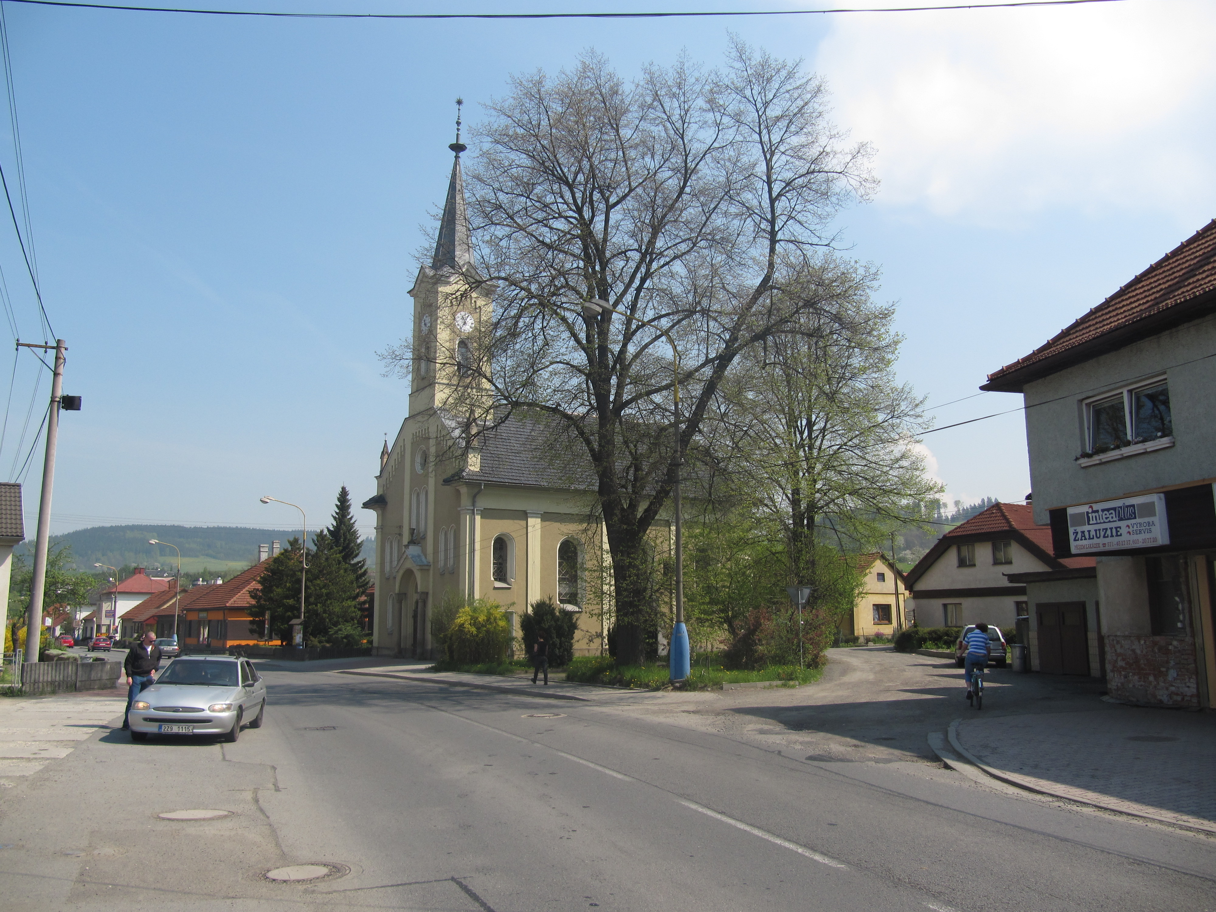 Jablůnka in Vsetín District, Czech Republic. Restaurant.